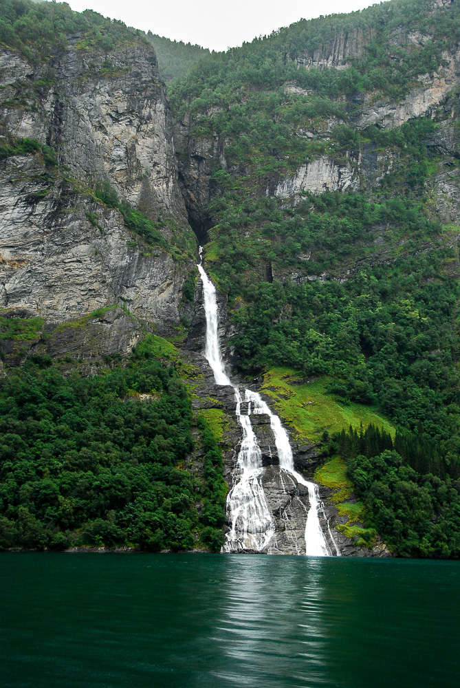 Friaren